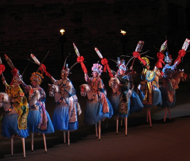 Chinese Performers, Edinburgh Military Tattoo, 2009 The Edinburgh Military Tattoo - performed annually by British, Commonwealth and International military bands and display teams - is held in the parade ground of Edinburgh Castle. The event forms part of the Edinburgh Festival. The principal military band for the 2009 Tattoo was provided by the Royal Air Force under the event's Principal Director of Music, Squadron Leader Duncan Stubbs, with other bands and musicians including those from Switzerland and Tonga. This photograph shows the She Huo cultural troupe from Edinburgh's twin city of Xi'an in China.